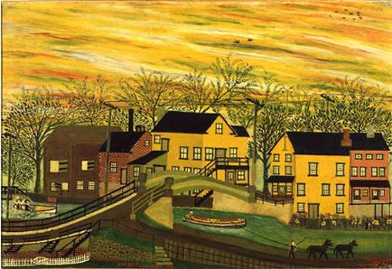 Painting by Joseph Pickett (painter)